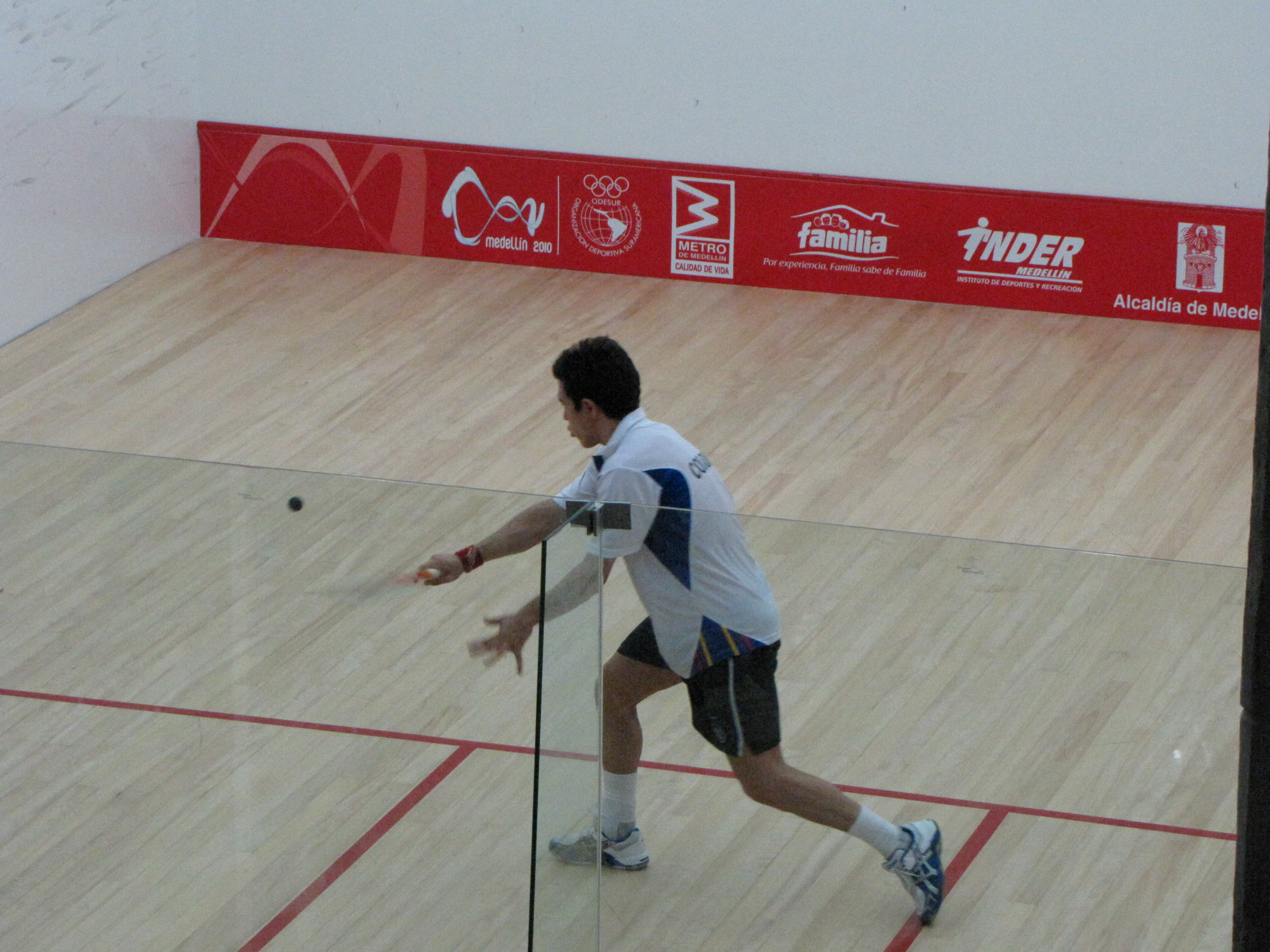 Miguel Ángel Rodríguez, Colombian squash player who beat his Argentinian opponent Matías Valenzuela with the following score: 11/2 11/5 11/6.